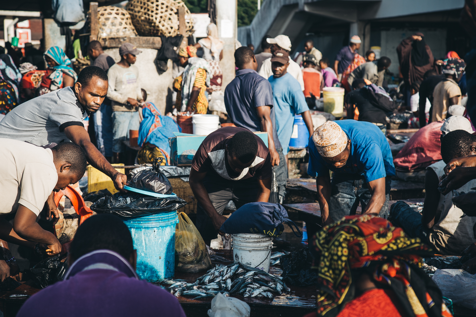 The Dar es Salaam fish market This is an image of Cultural Fashion or Adornment from Tanzania